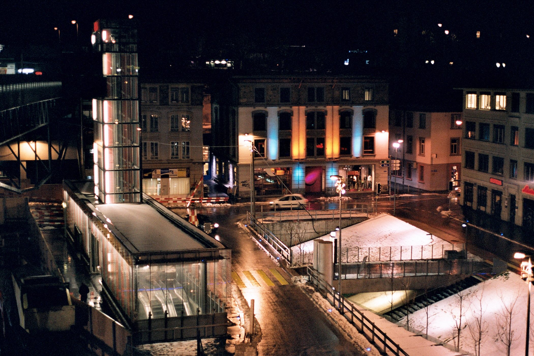 Views of Lausanne under the first snow of winter 2005